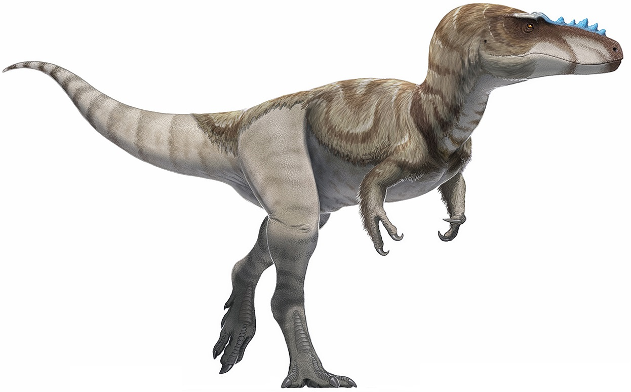 Alioramus remotus life restoration.